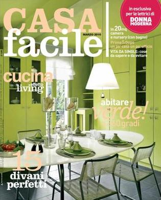 Cover of Casa Facile magazine, March 2010. Arnoldo Mondadori Editore, Mondadori Group.